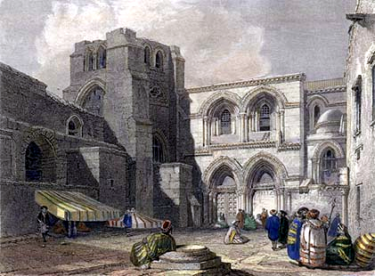 The entrance to the Church of the Holy Sepulchre, engraving 1834.